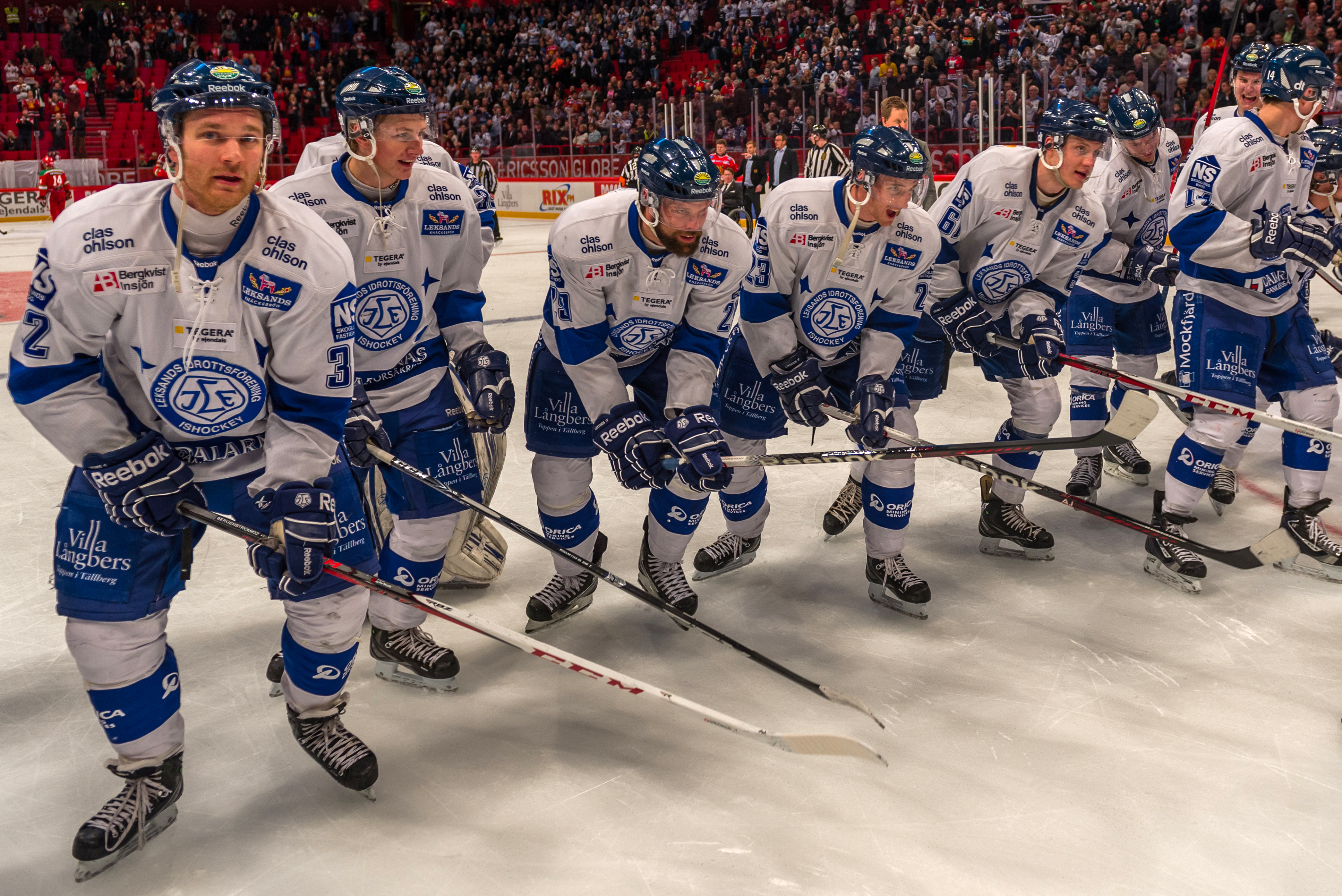 Leksand IF players celebrates the 5-0 victory over Mora IK in Hockeyallsvenskan (Swedish second league). Match between Leksand and Mora in Stockholm 2013-01-05.